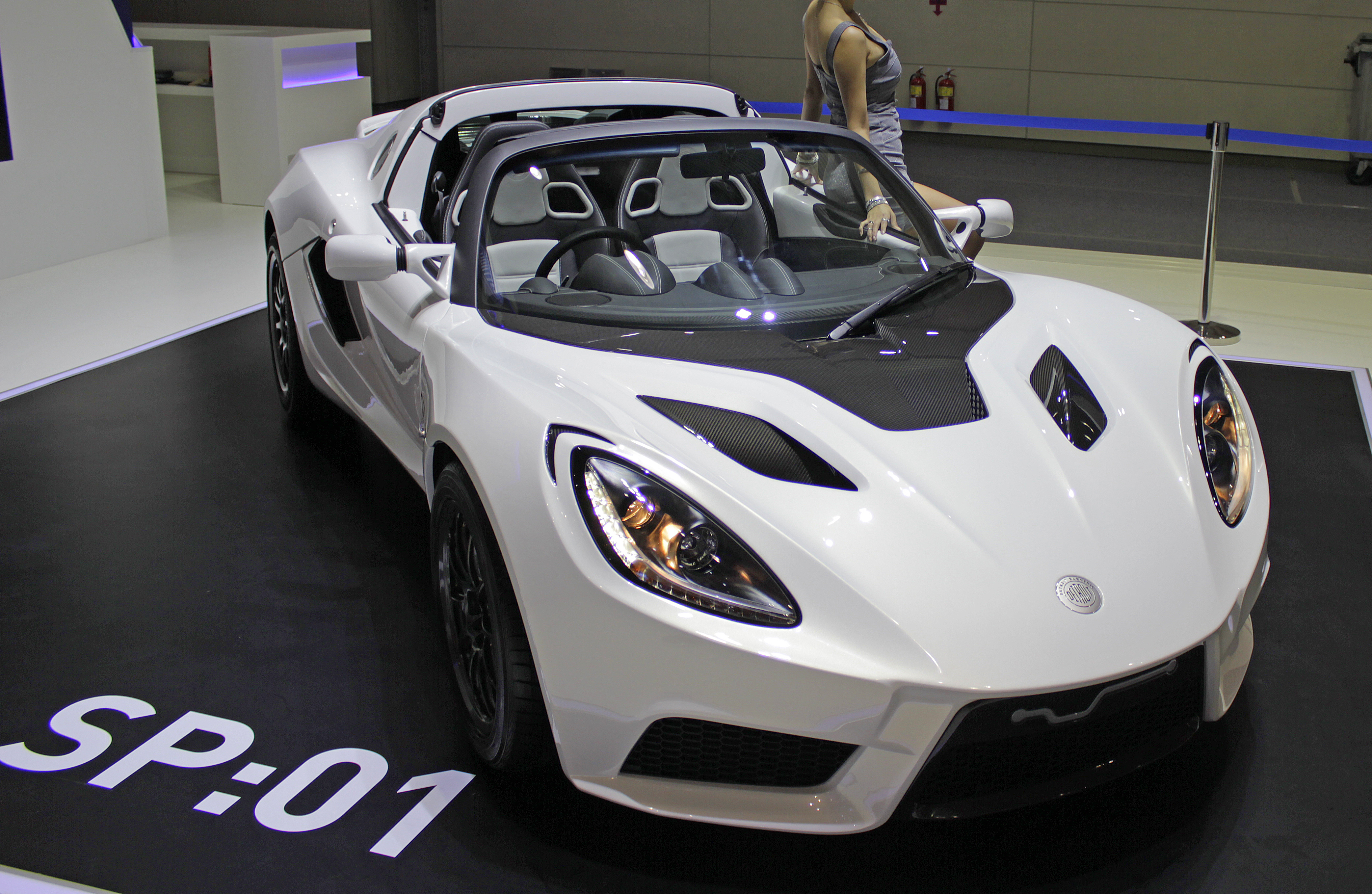 at Seoul Motor Show 2015